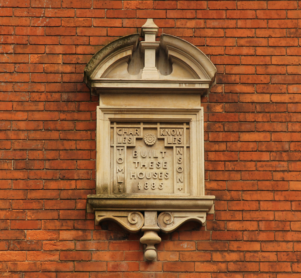 Beaumont Fee datestone